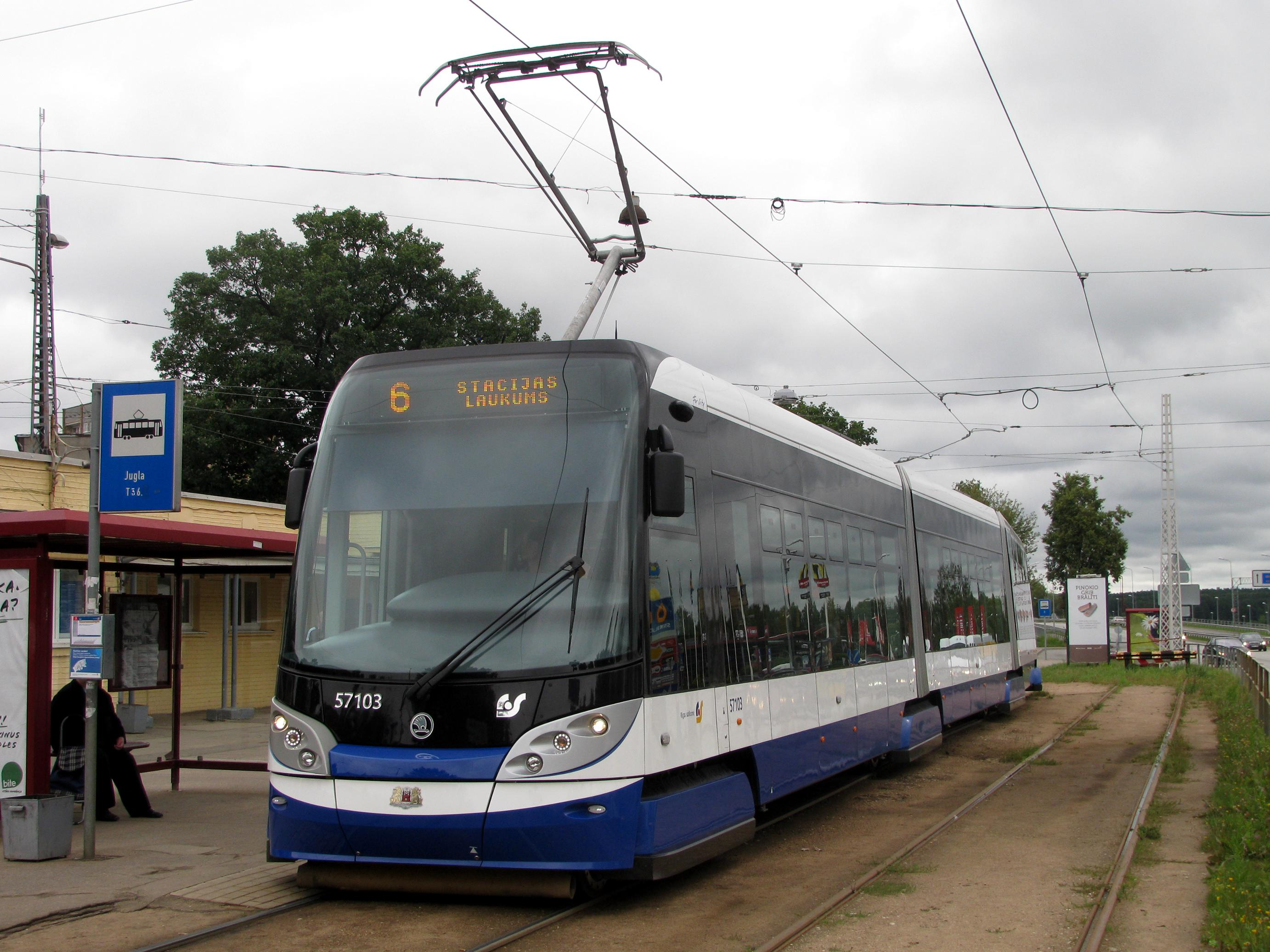 Škoda 15T type tram No. 57103 at Jugla end station, Riga, Latvia